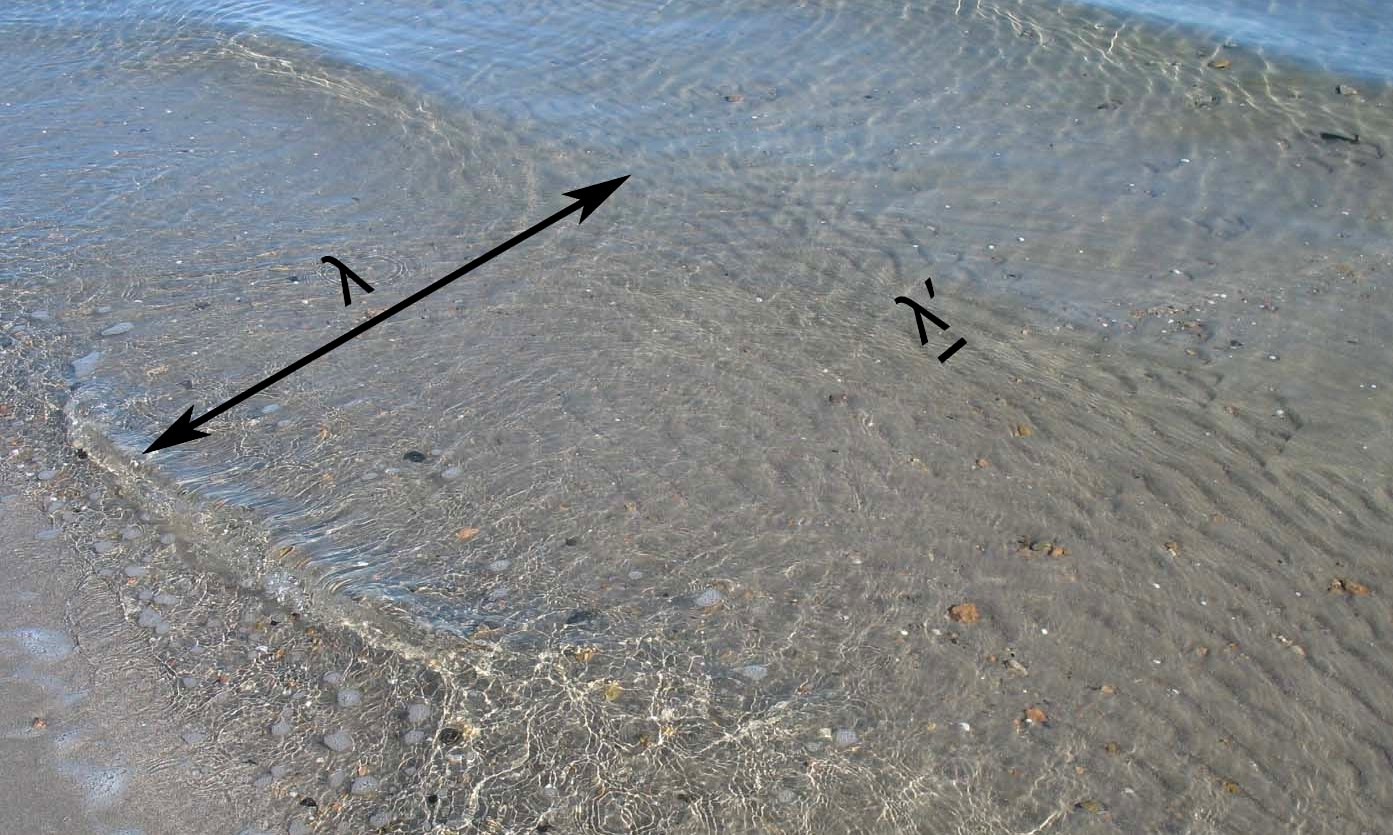 Wavelengths comparison between waves and ripples. λ = wavelength of the waves; λ '= wavelength of the ripples.